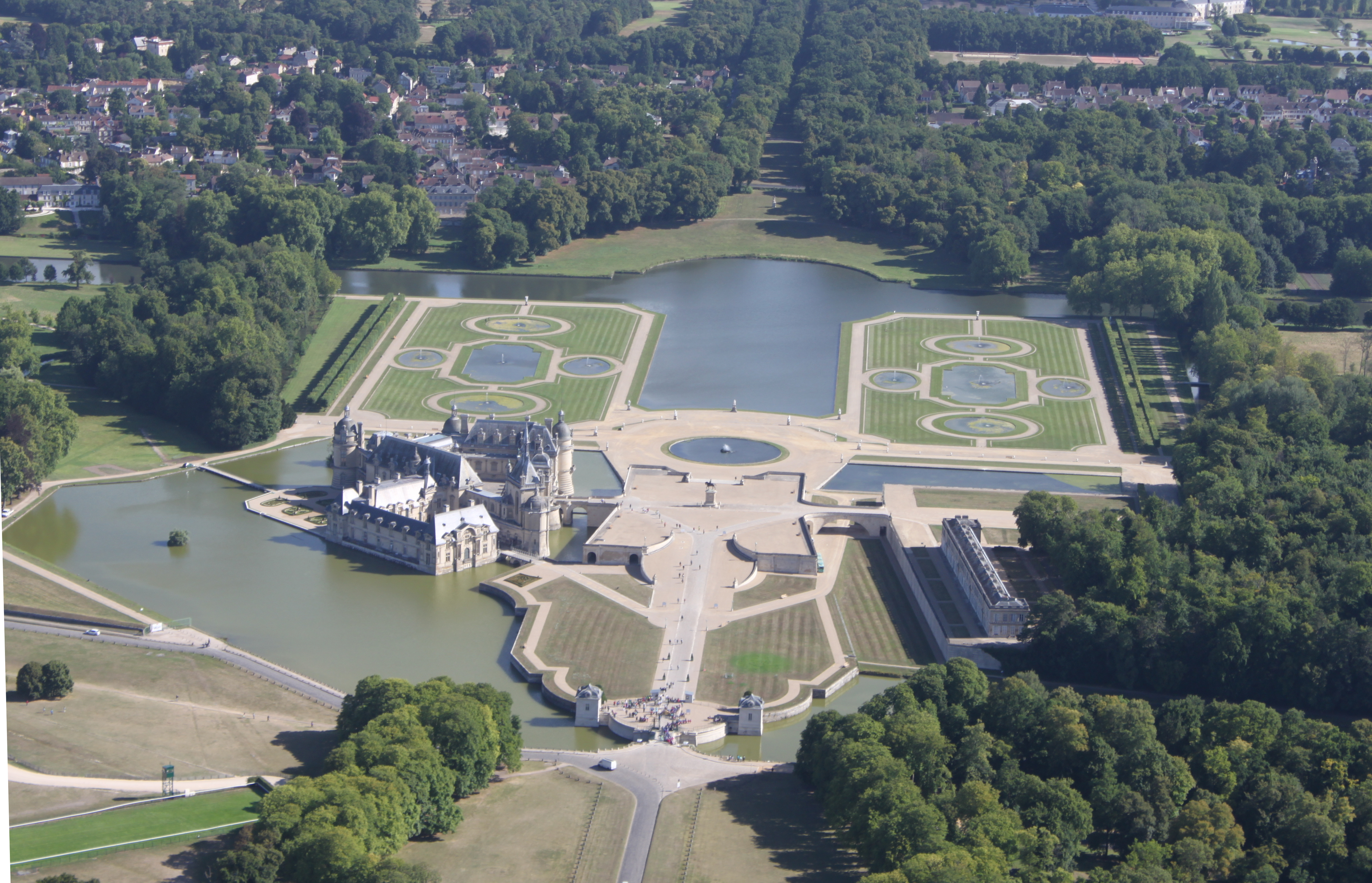 The Château de Chantilly is a historic château located in the town of Chantilly, France.